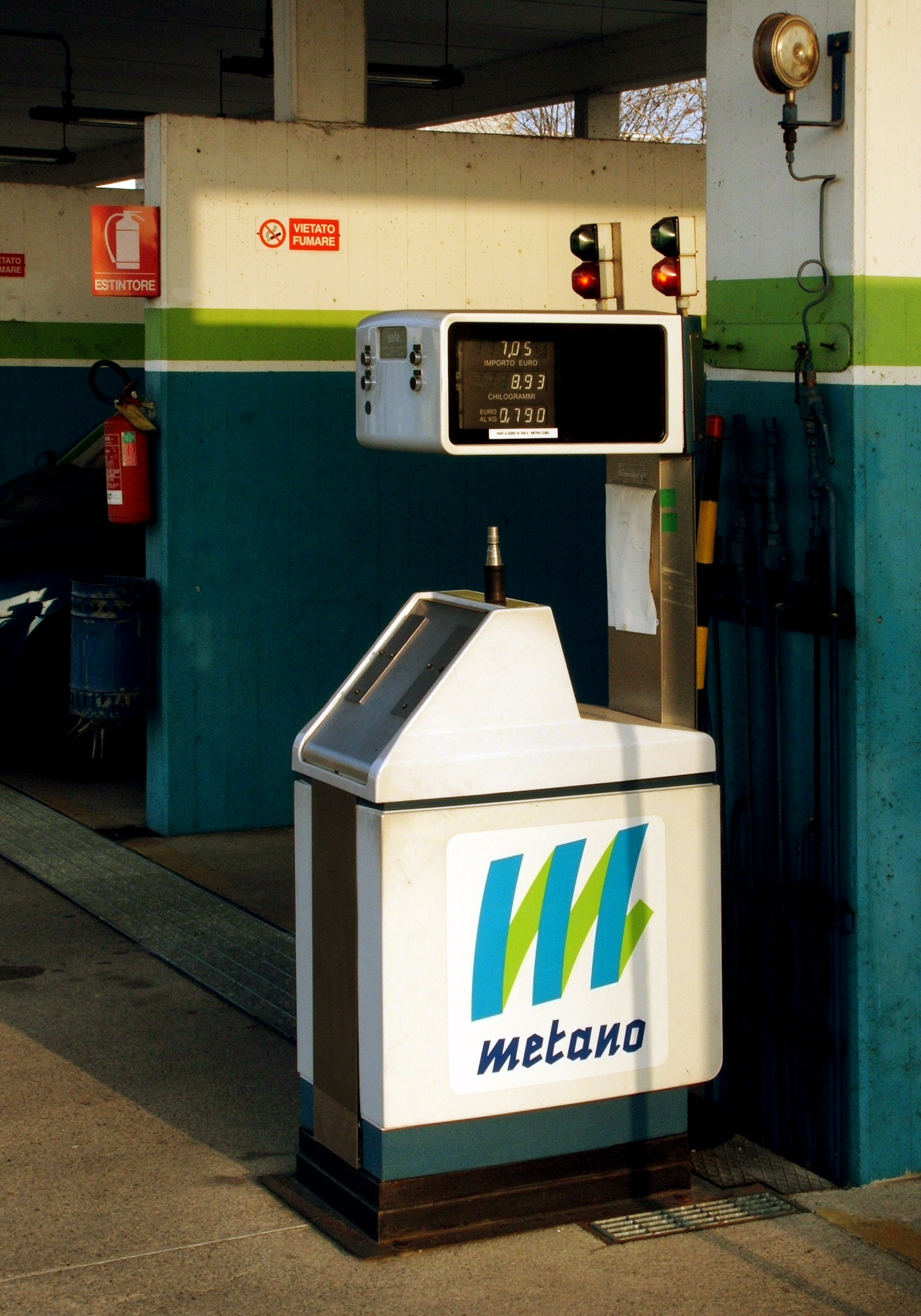 CNG pump in Italy